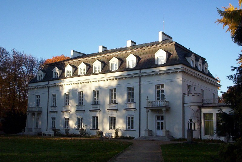 Palace in Radziejowice, south-west side, Poland.